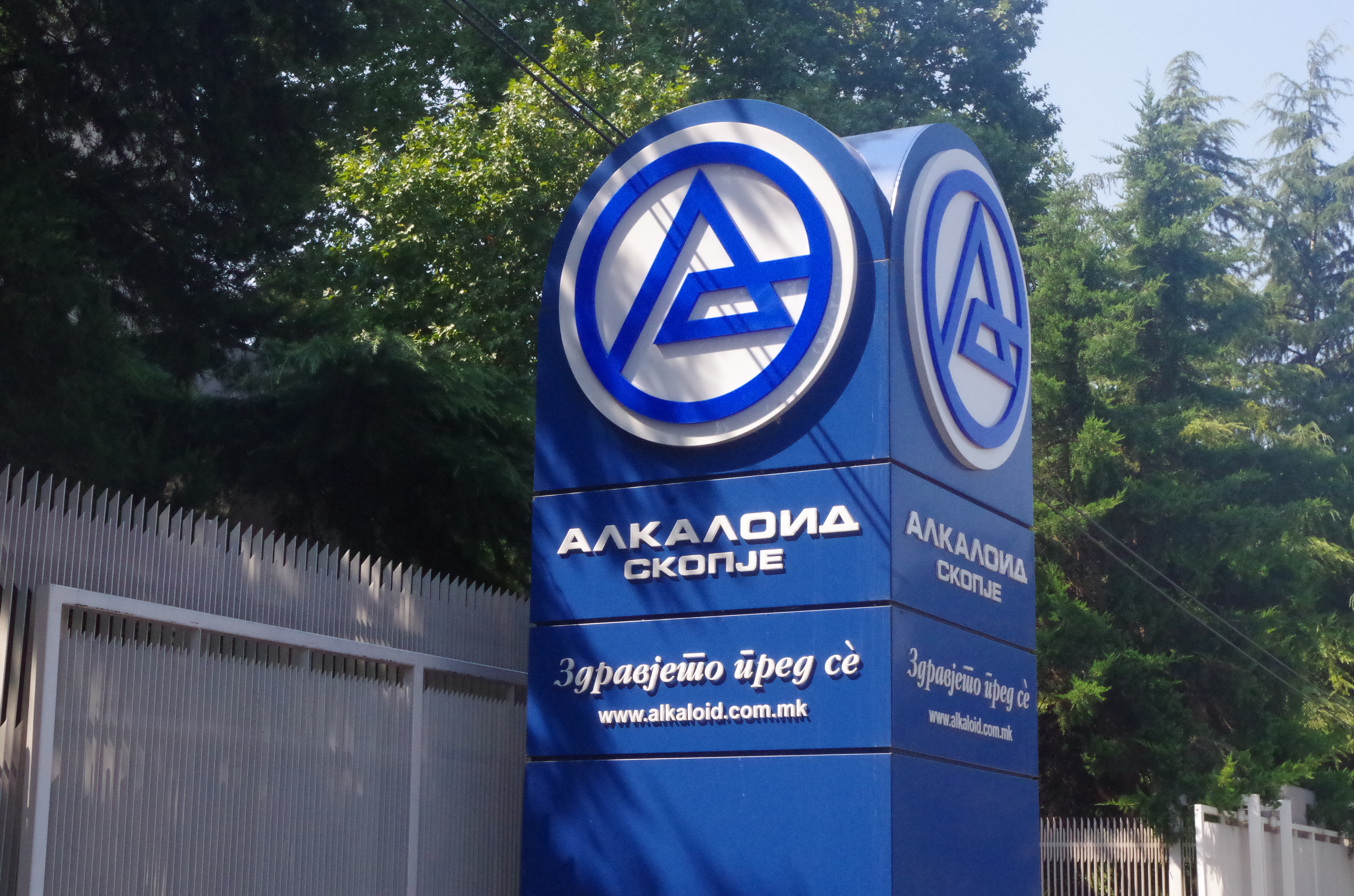 Pharmaceutical industry "Alkaloid" in Skopje, Macedonia